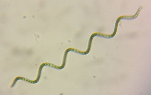 A single Spirulina (Arthrospira platensis) colony, a filamentous, edible form of blue-green algae.